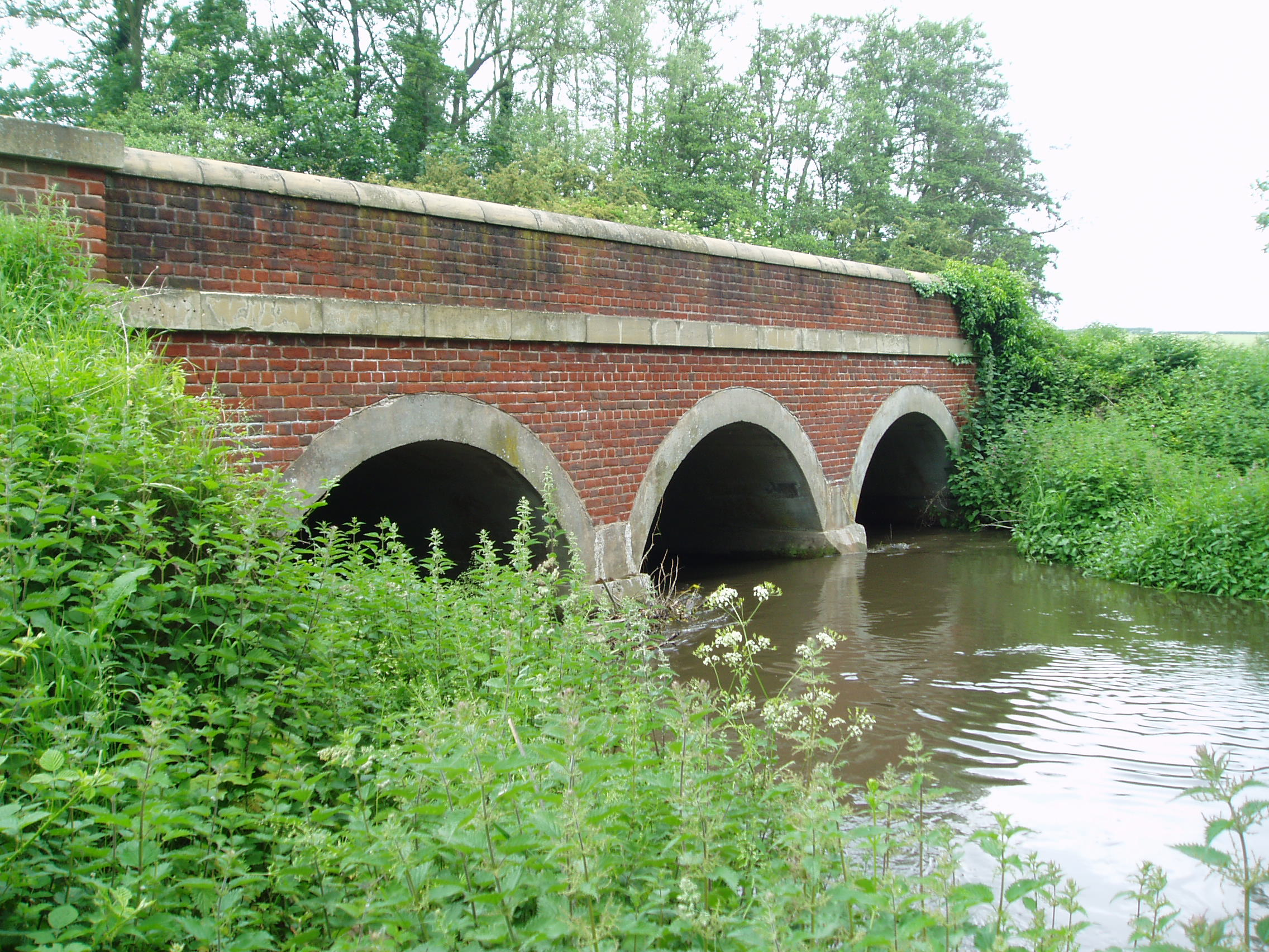 The Grade II listed Hodsock Red Bridge, which carries the B6045 over the River Ryton near Blyth, Nottinghamshire, England